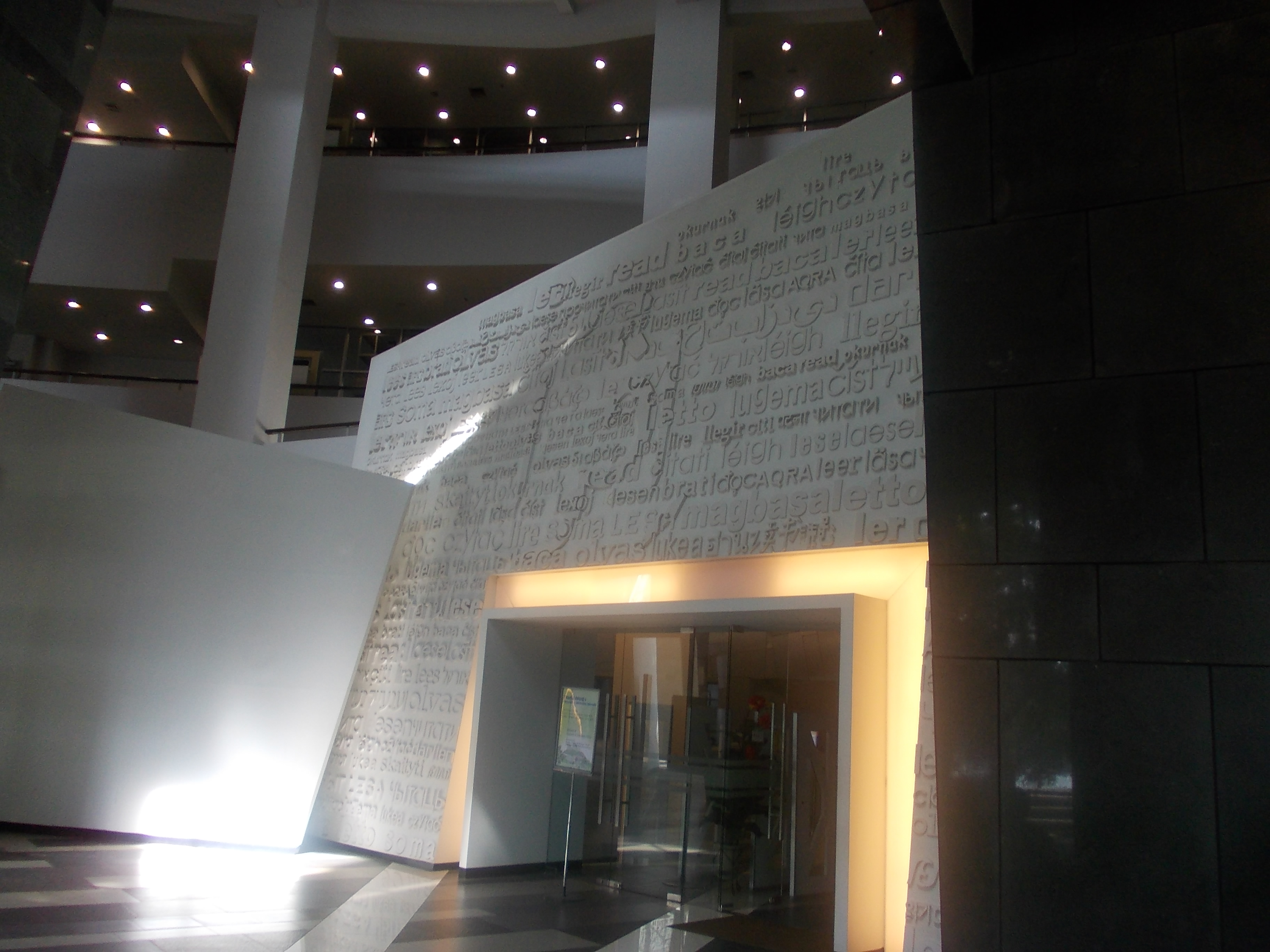 The main gate of the central library of the Universitas Indonesia. Claimed as the largest library in the world.